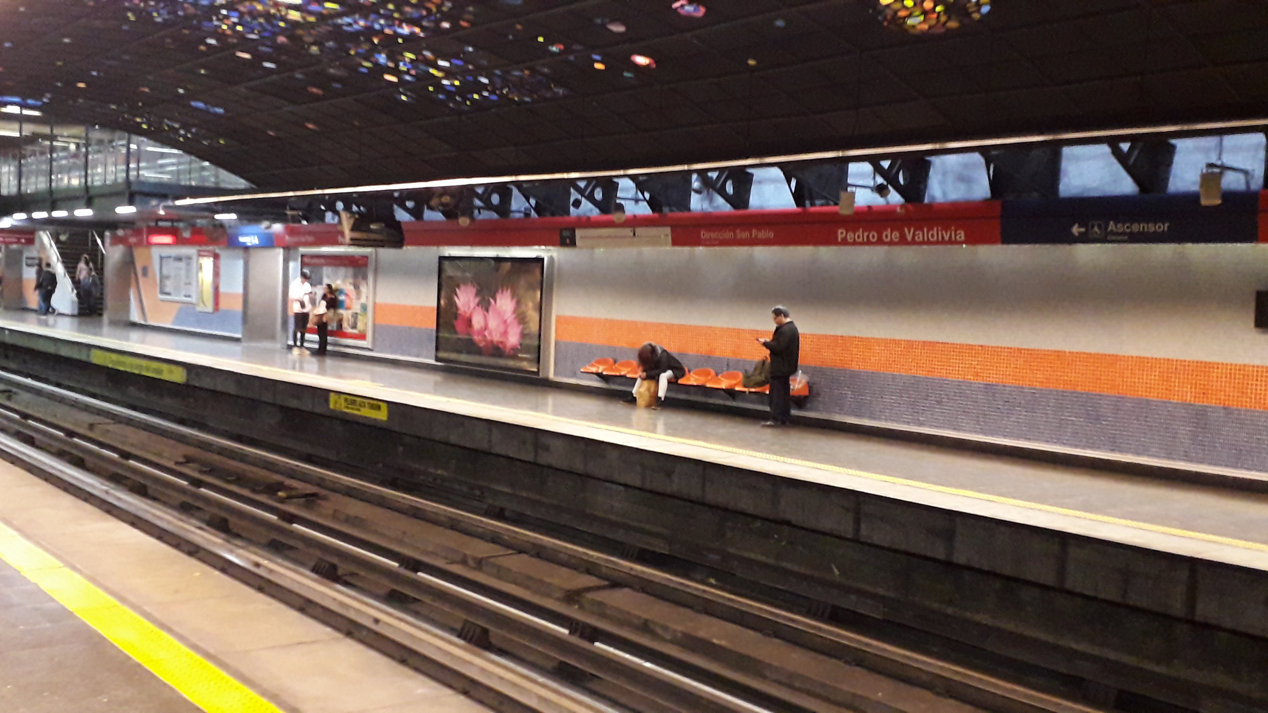 Pedro de Valdivia Station Santiago Metro Line1